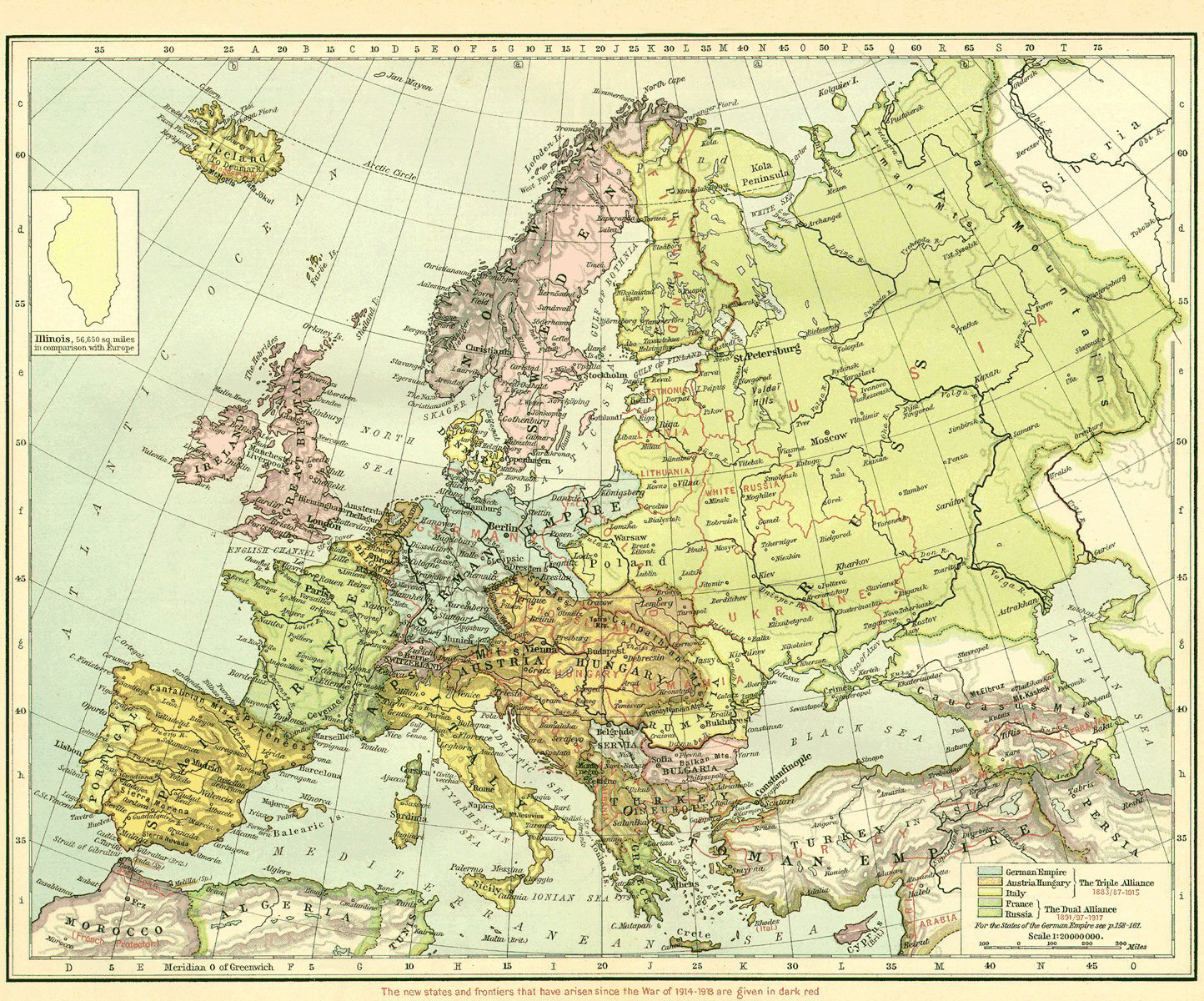 Map of Europe immediately after WWI. Pre-WWI borders are kept in color, while new states that emerged after WWI are presented in with red borders (see bottom of image).